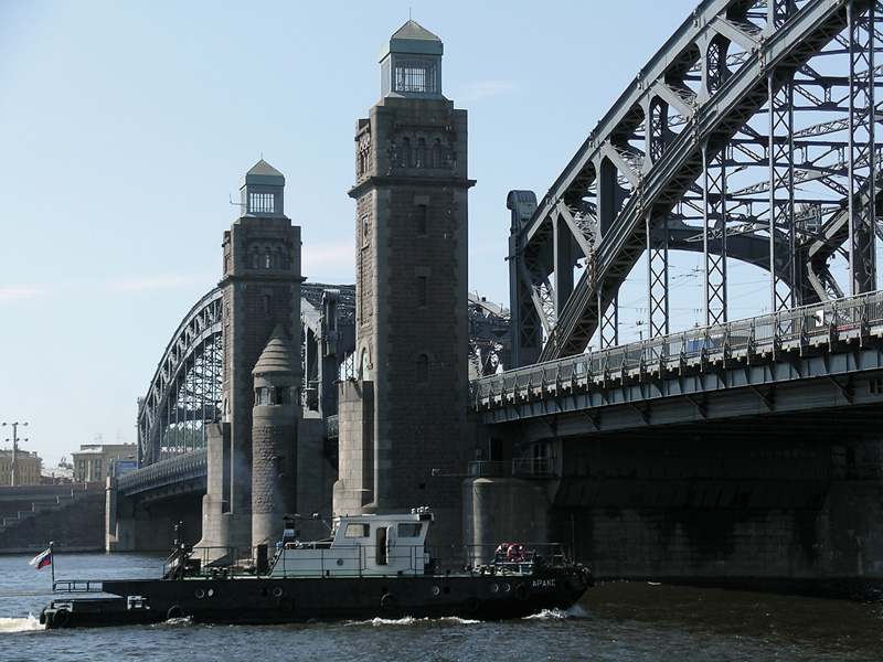 View on Peter the Great Bridge in Saint Petersburg, Russia